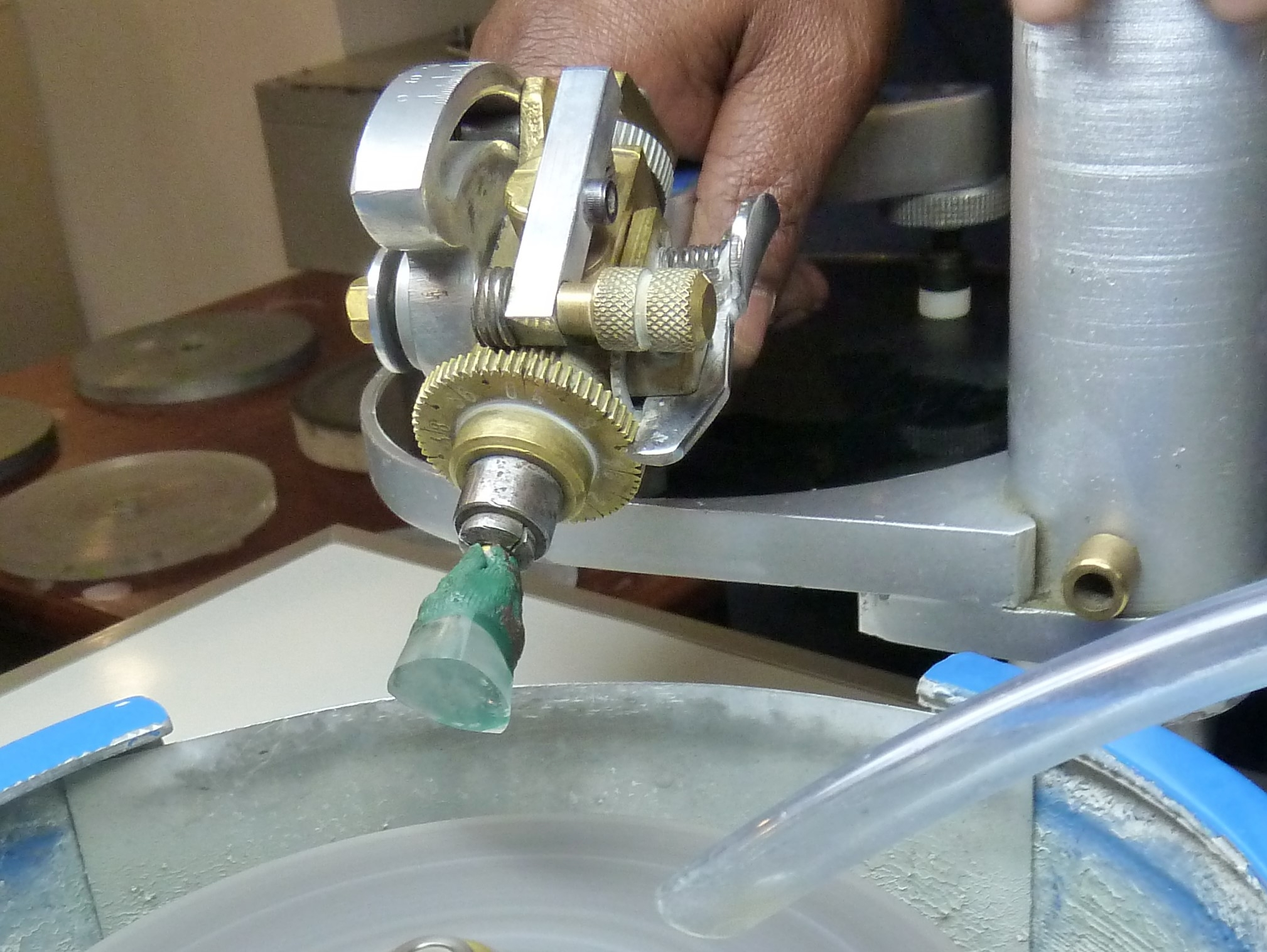 "Facetteuse head" in "Isini Jewellerie" .-Kandy, Sri Lanka.- South Asia.